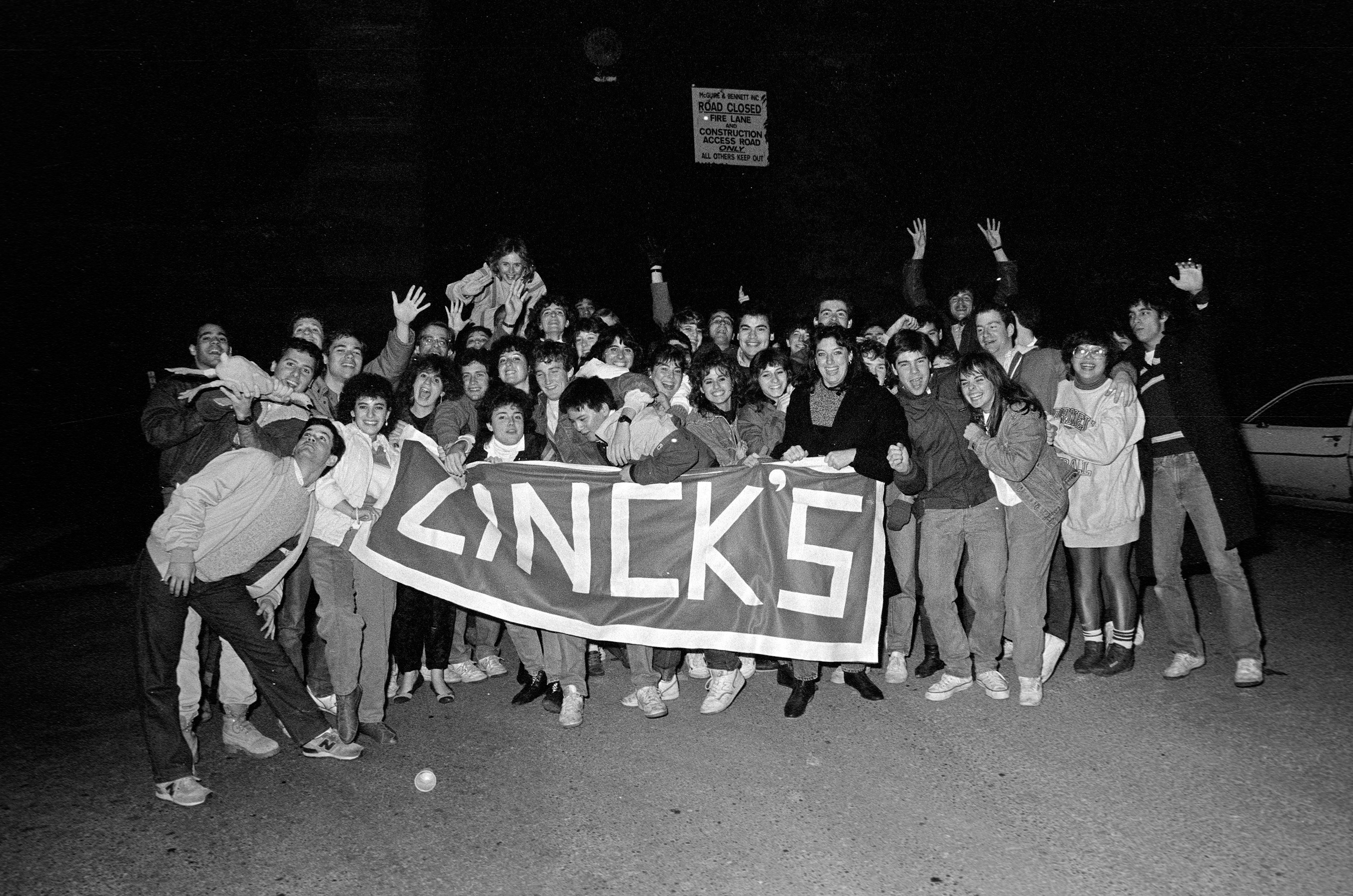 A group of Cornell students celebrate the "Spirit of Zincks" in October 2017. They celebrated at Dunbar's. Behind them is Eddy Gate, barely visible.